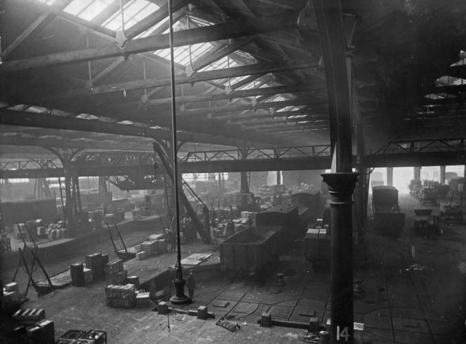 Interior of Railway Street Goods station Hull Dated 1905